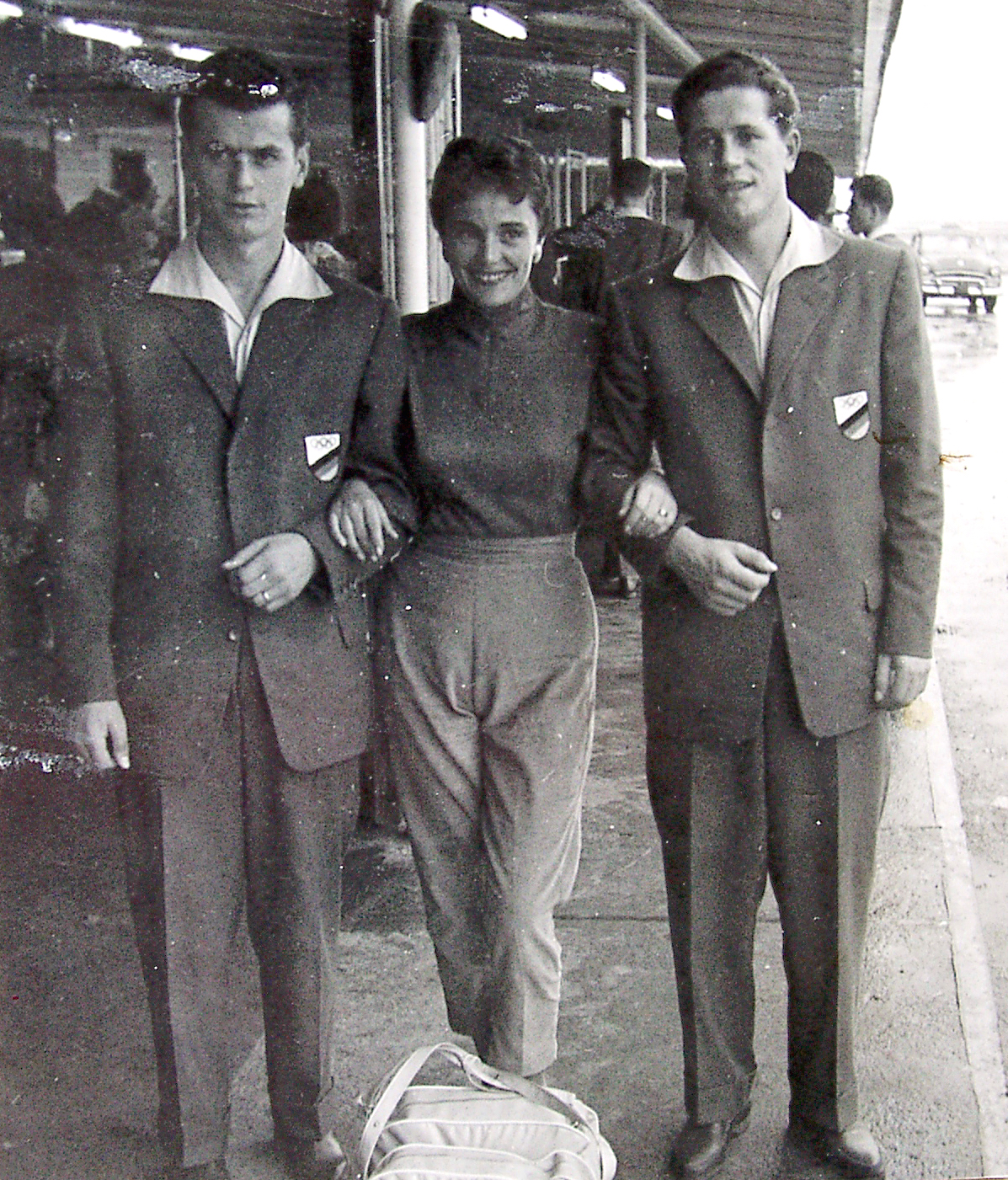 German footballers Rudi Hoffmann and Max Schwall